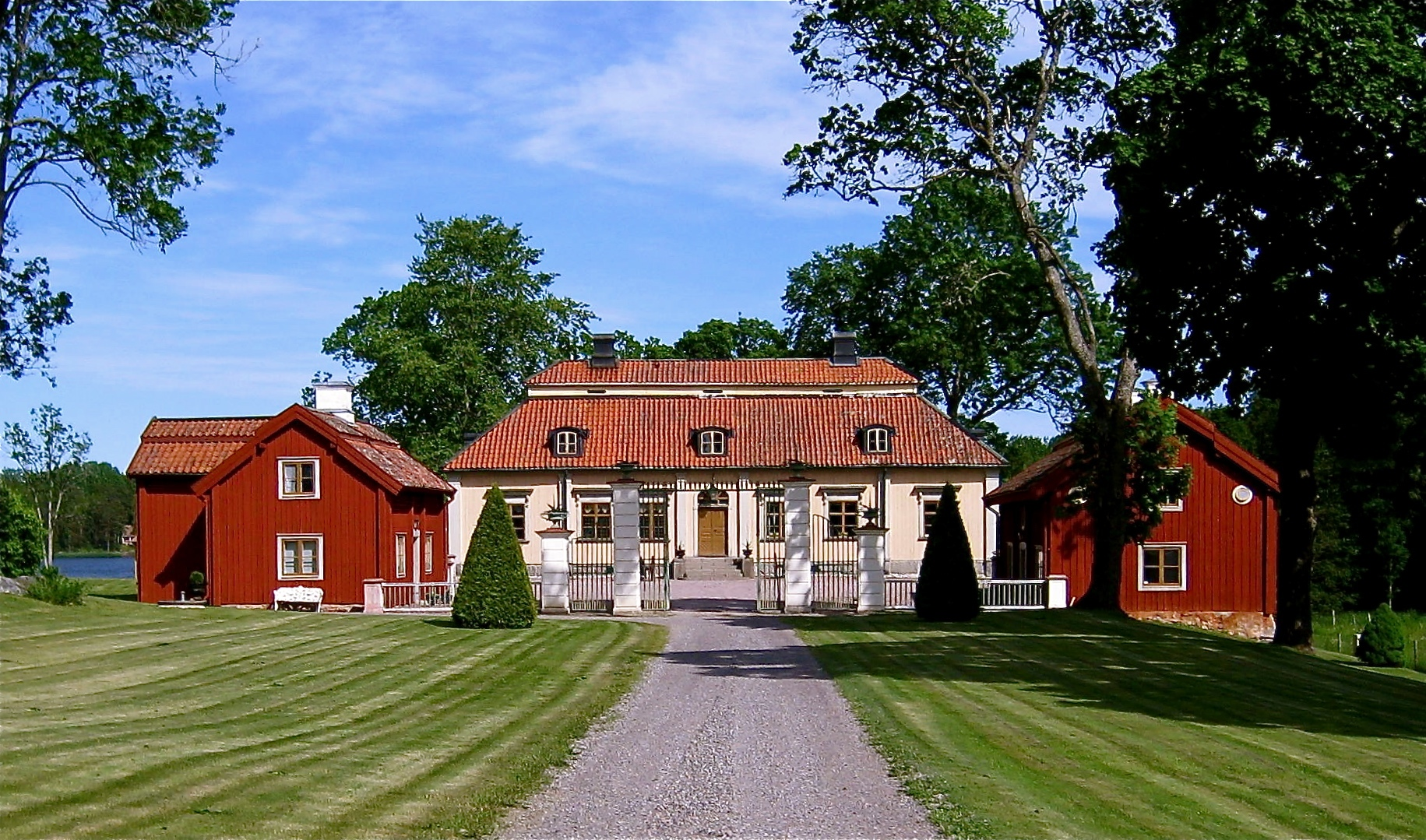 The Manor House at Stålboga Bruk